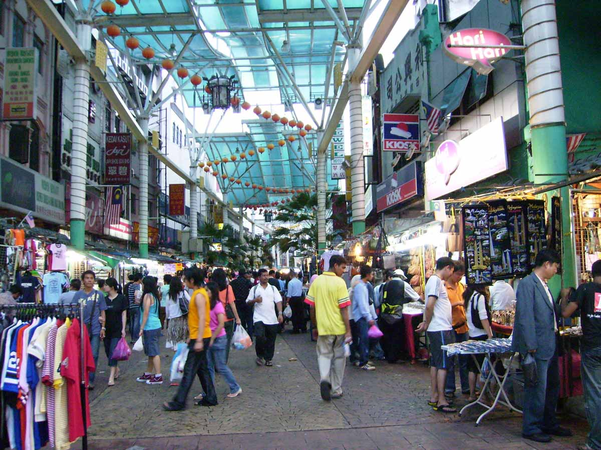 Rows of shop in Petaling Street